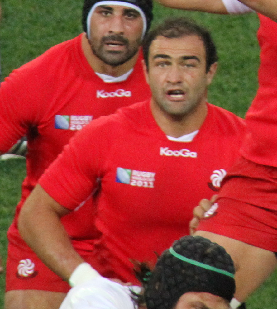 Georgian rugby union player Mamuka Gorgodze during 2011 Rugby World Cup match against England.